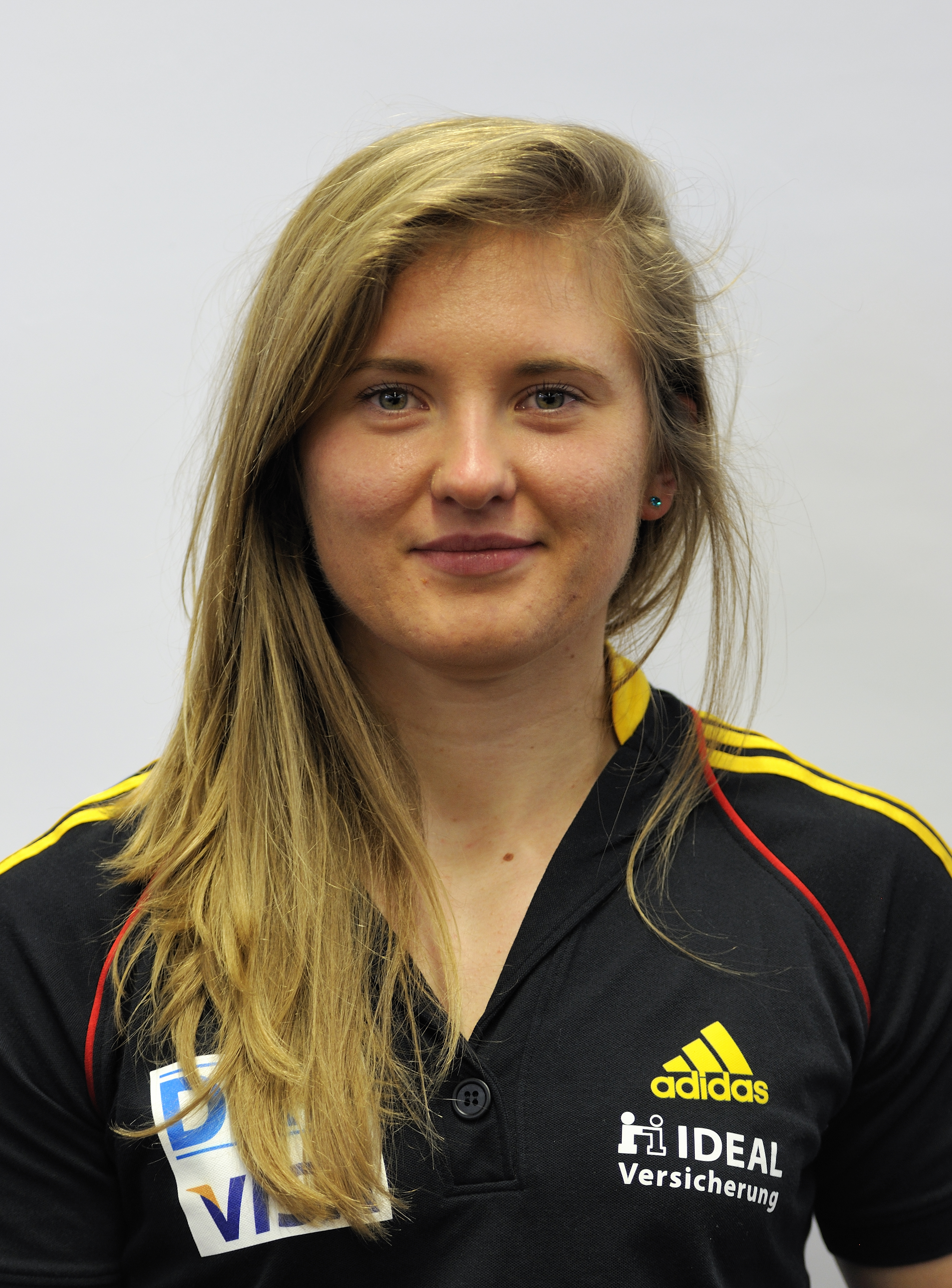 Picture taken in Erding during the investiture of the 2014 German olympic team (project). Stephanie Schneider.